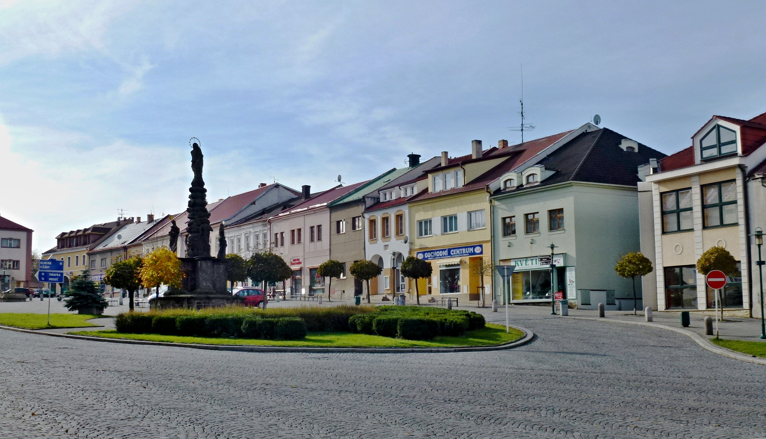 Skuteč town, Palacky Square; houses on the west side of the square. Photo location - Czechia, Pardubice Region, Skuteč town.